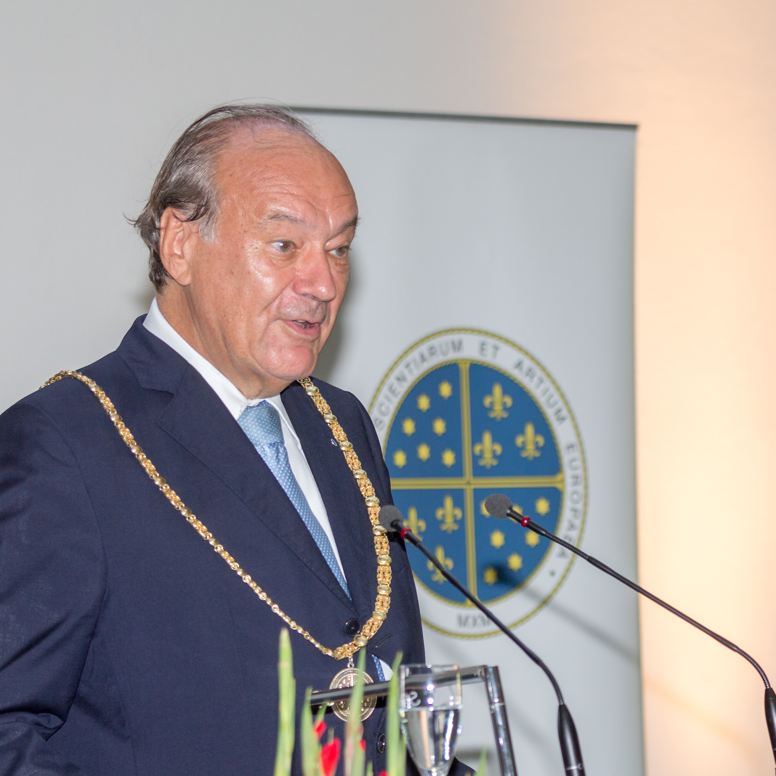 Award ceremony of the European Academy of Sciences and Arts in the city townhall of Cologne Photo: Prof. Dr. Dr. h.c. Felix Unger, president of the European Academy of Sciences and Arts